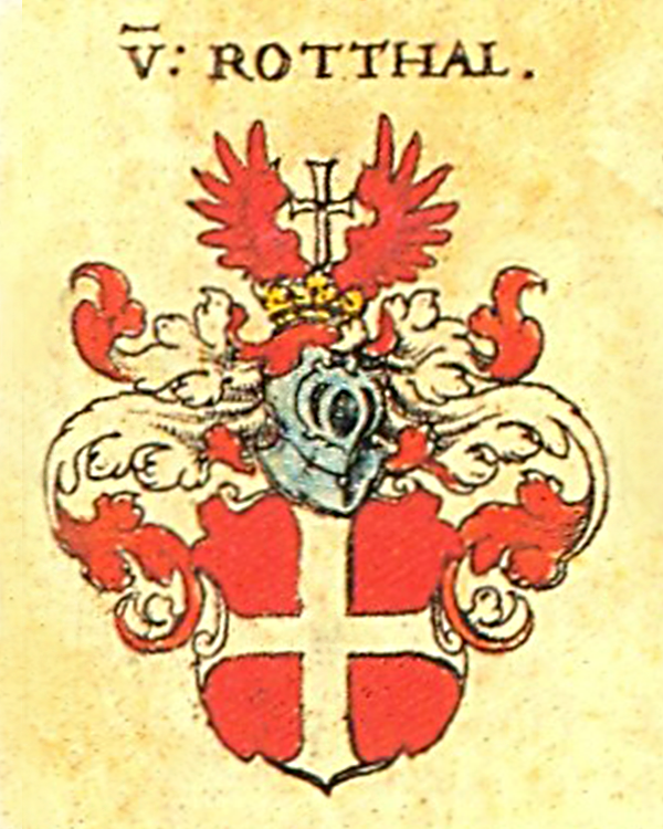 Coat of Arms of Rottal